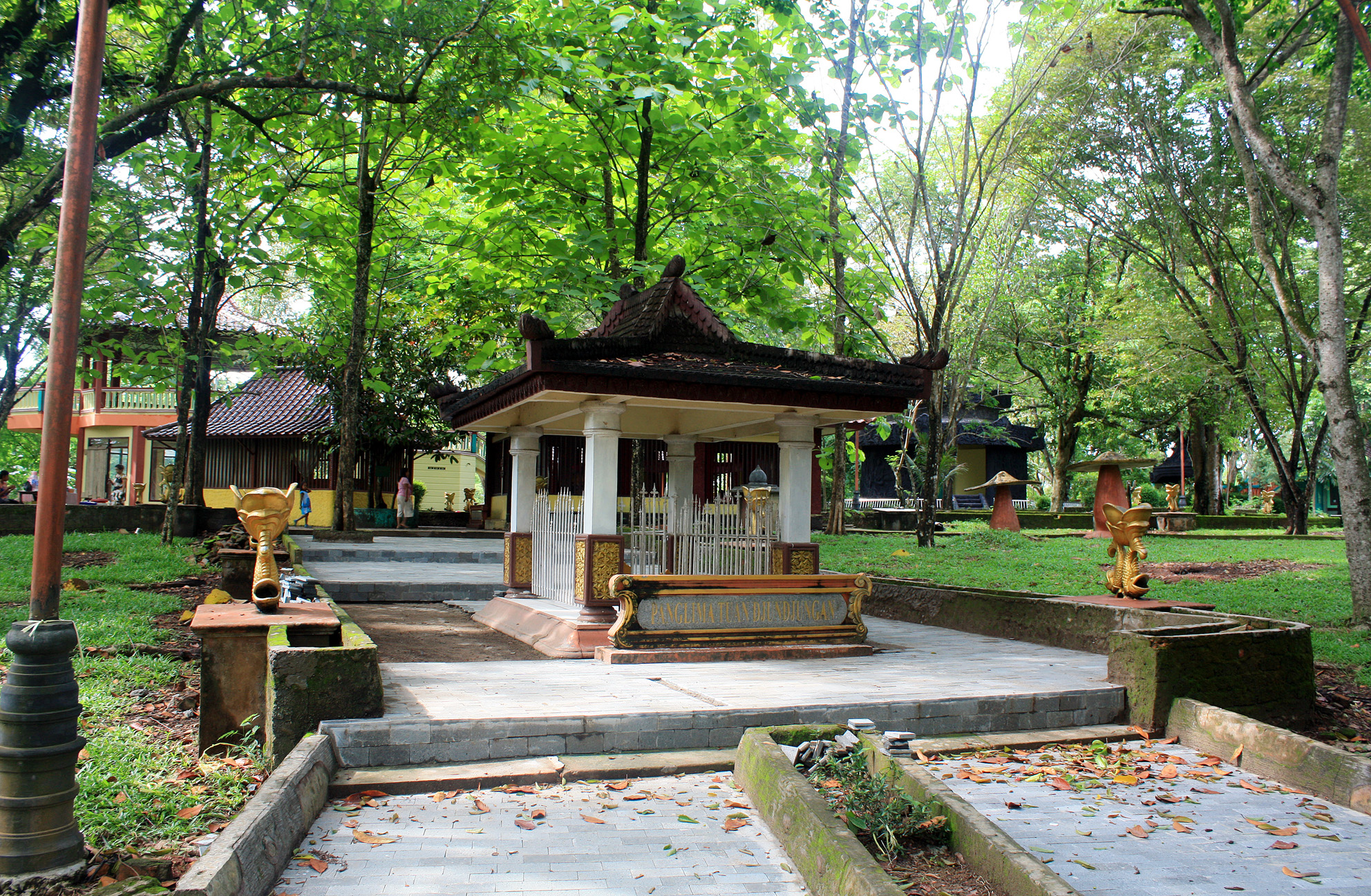 The tombs complex on top of Bukit Seguntang archaeological Park, Palembang, South Sumatra, Indonesia. The local traditions linked the figures entombed here is linked with the kings and nobles of Malay-Srivijaya kingdom. On front is the tomb of Panglima Tuan Junjungan.